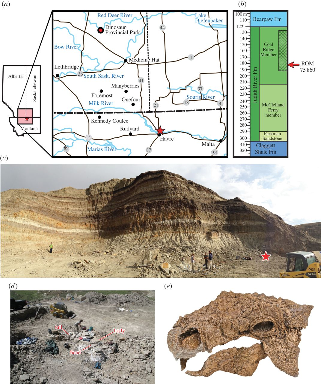 Holotype locality for ROM 75860, Zuul crurivastator. (a) Map showing the geographical location of ROM 75860, marked with a star, near Havre, Montana. (b) Approximate stratigraphic range of the host stratum of ROM 75860 within the Coal Ridge Member of the Judith River Formation. (c) Panoramic view of the Z. crurivastator quarry, with the location of the specimen marked by a star. (d) Orientation of ROM 75860 in the quarry during excavation. (e) Well-preserved skull and jaws of ROM 75860 showing quality of preservation.